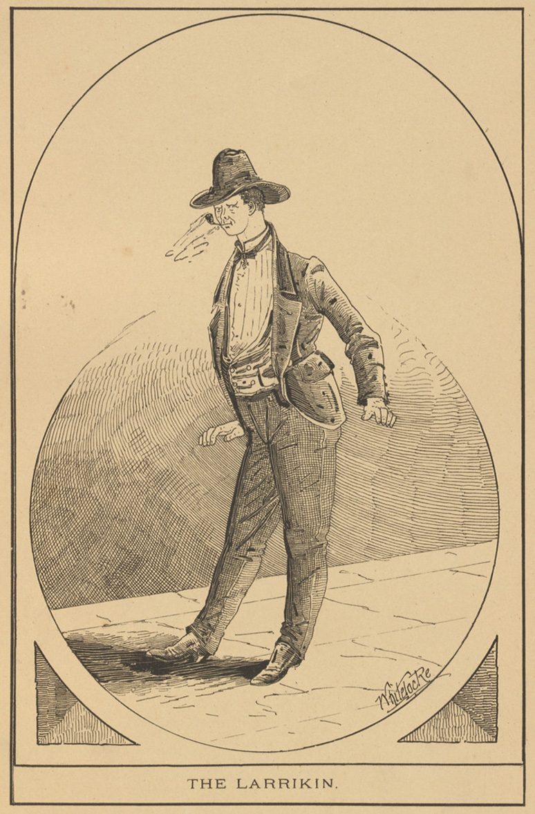 "The larrikin", from A walk in Sydney streets on the shady side, printed image, 24.8 h x 16.1 w cm).